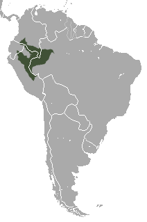 Monk Saki (Pithecia monachus) range